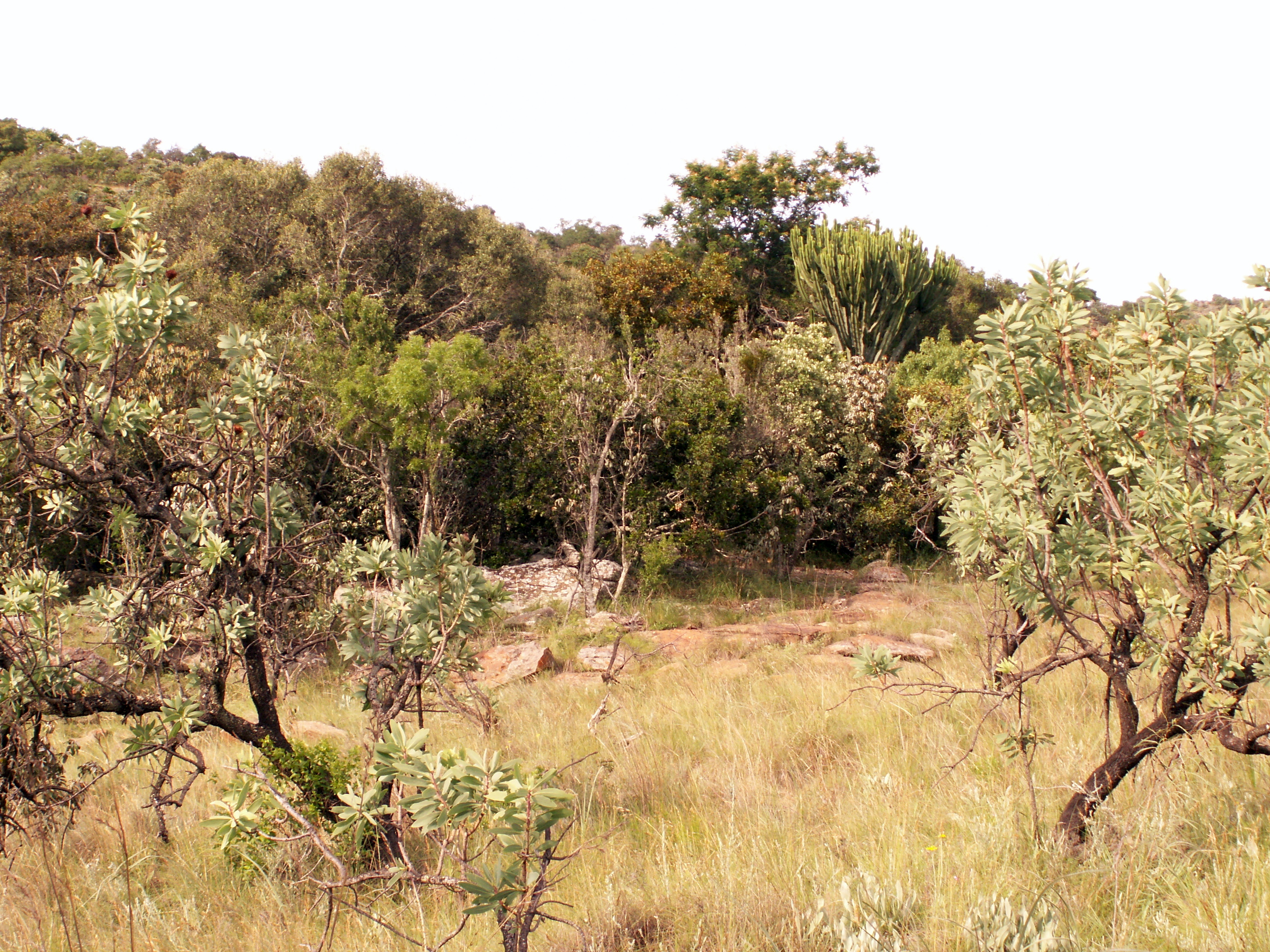 Bushveld flora near Doorndraai dam, Naboomspruit, Limpopo.Bushveld